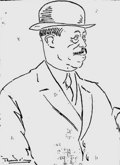 Aquilino Villegas by Ricardo Rendón